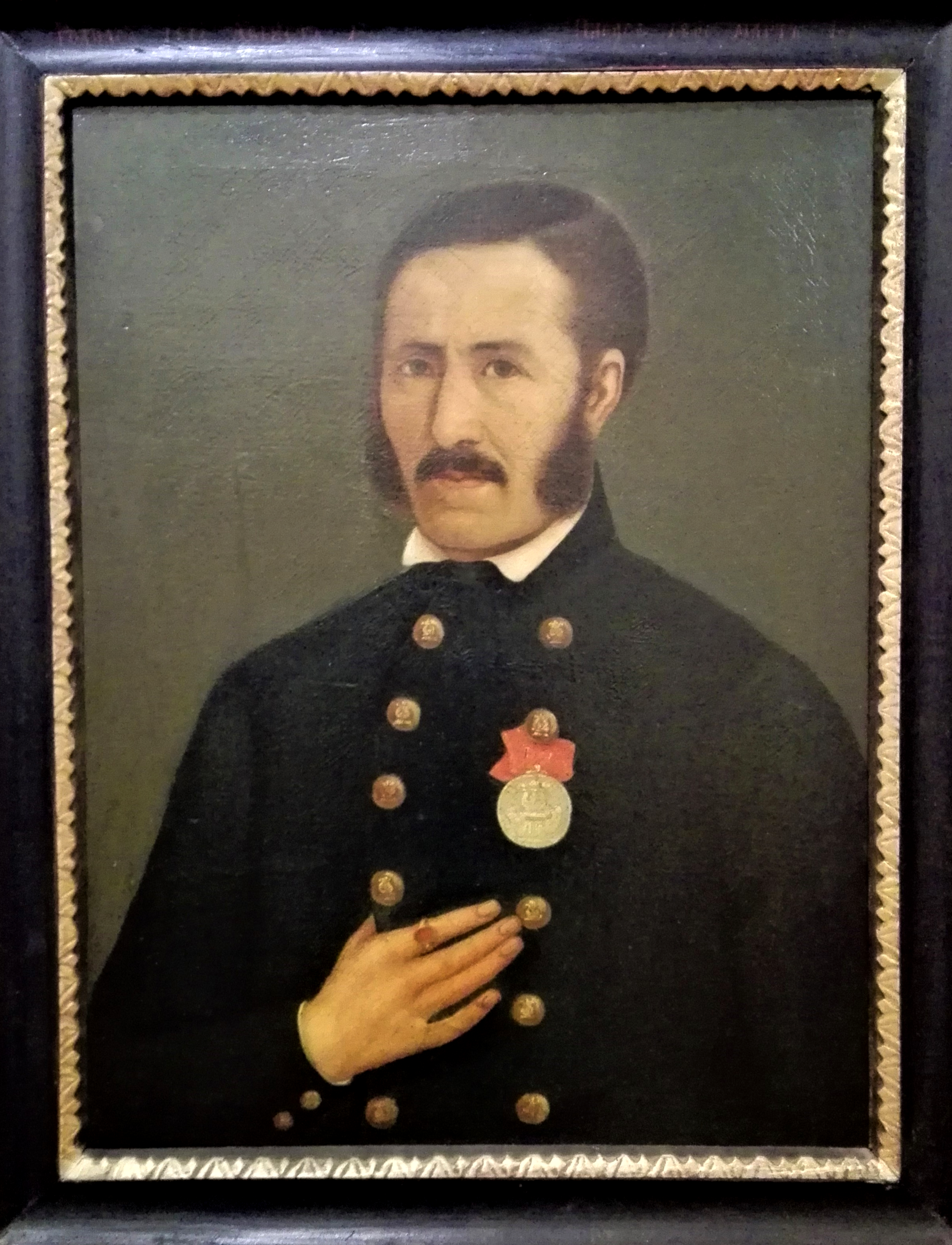 Stanislav Dospevski selfportrait (ca. 1856), Art gallery "Stanislav Dospevski" Pazardjik